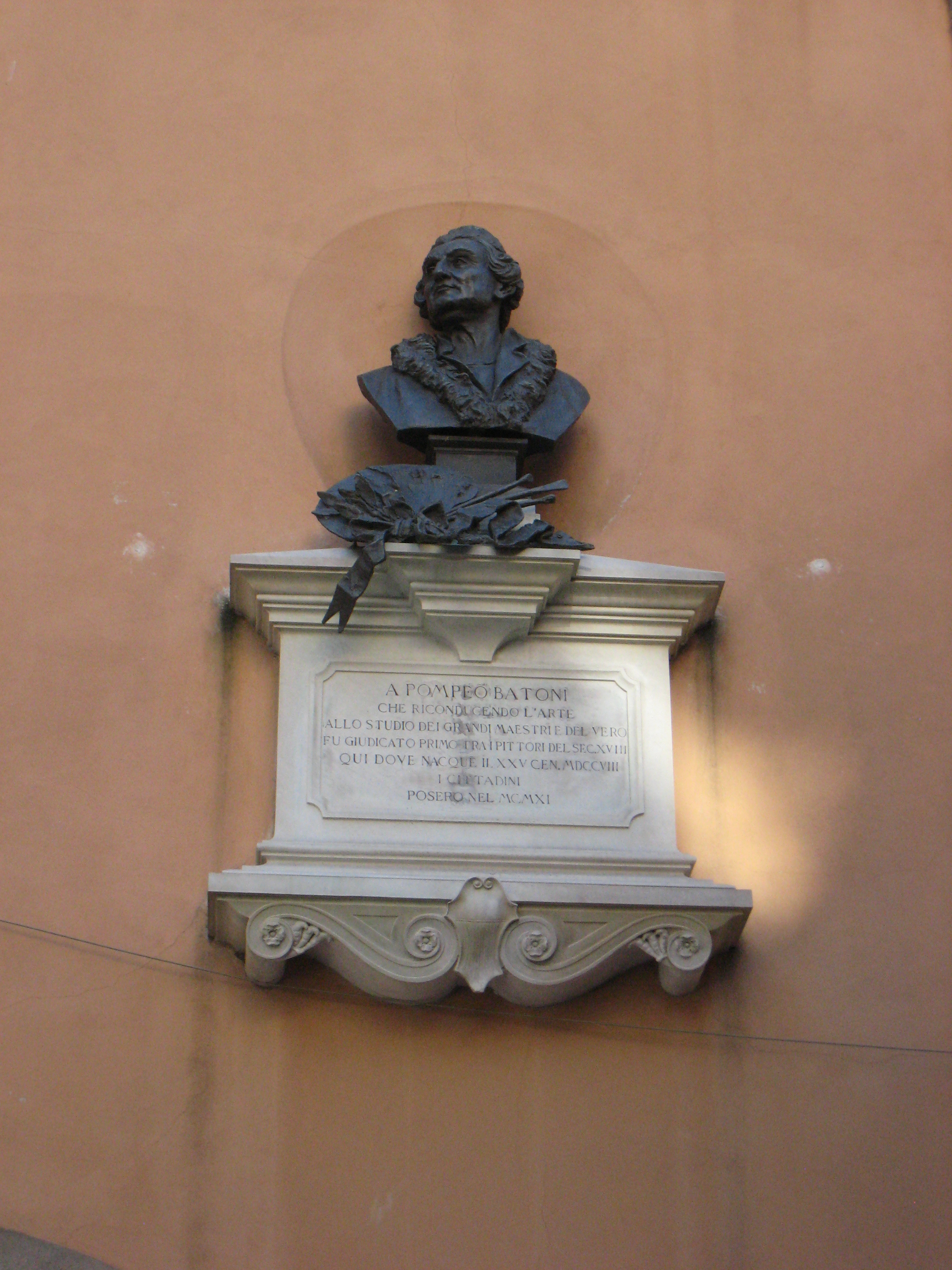 Lucca - monument on Pompeo Batoni's birthplace house